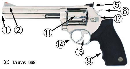 Tauras 669, description for parts of handgun.